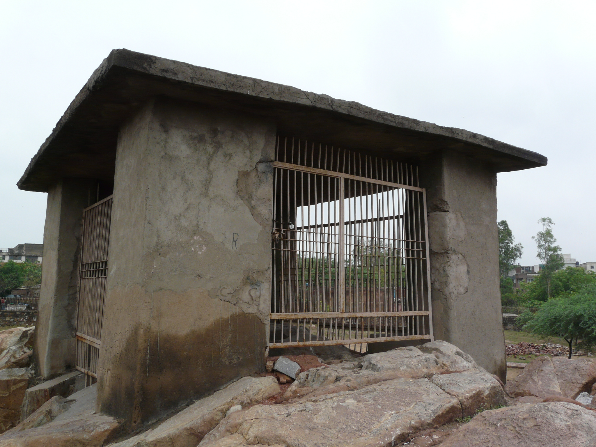 Adhokan rock enclosed in a crude concrete shed, in East of Kailash area of South Delhi